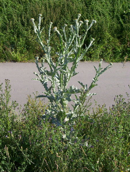 Onopordum acanthium (Cotton Thistle), Leipziger Auenwald, Germany